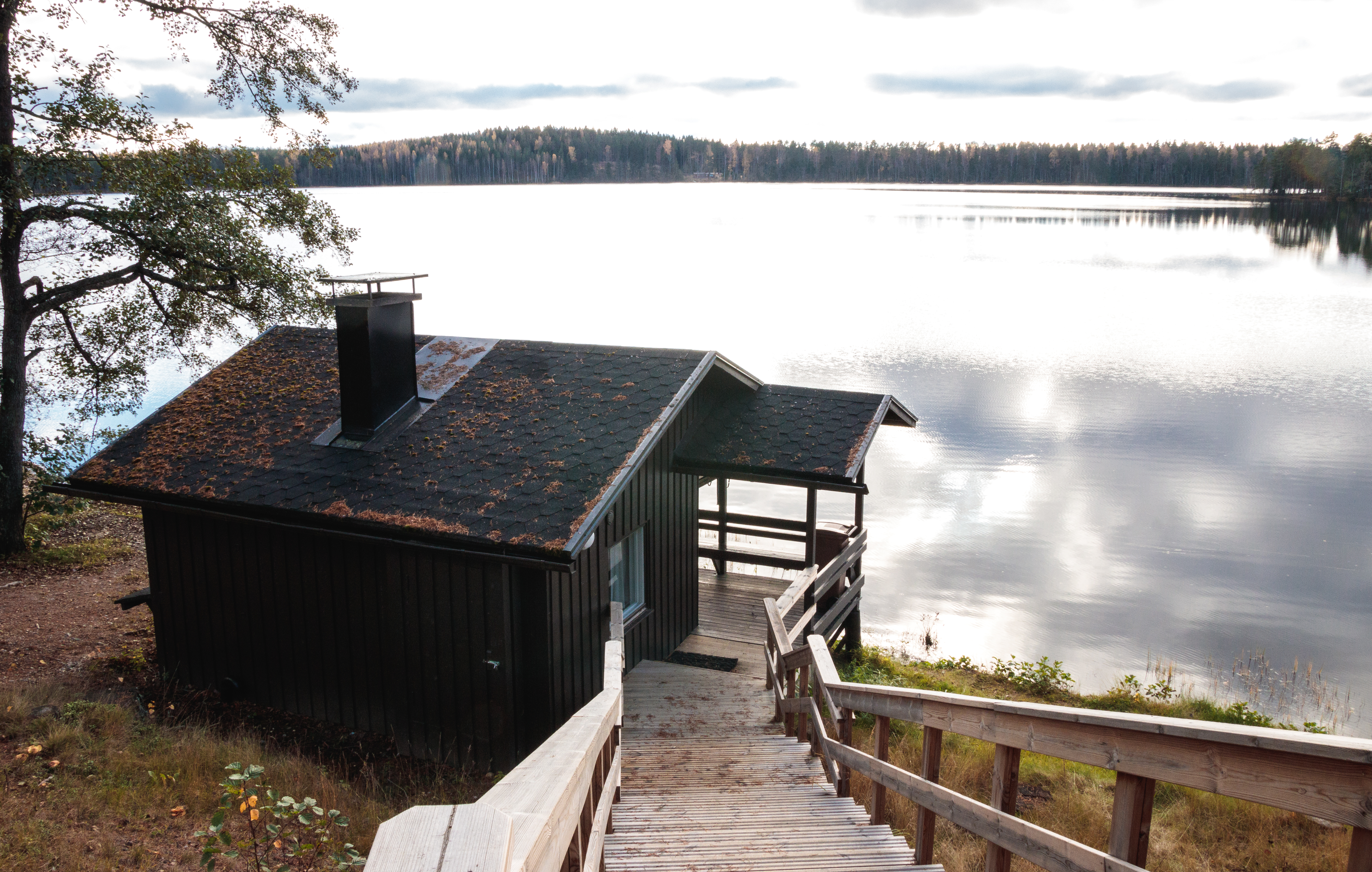 A sauna by the Lake Ruostejärvi in the Eerikkilä Sports Academy, Tammela, Finland.